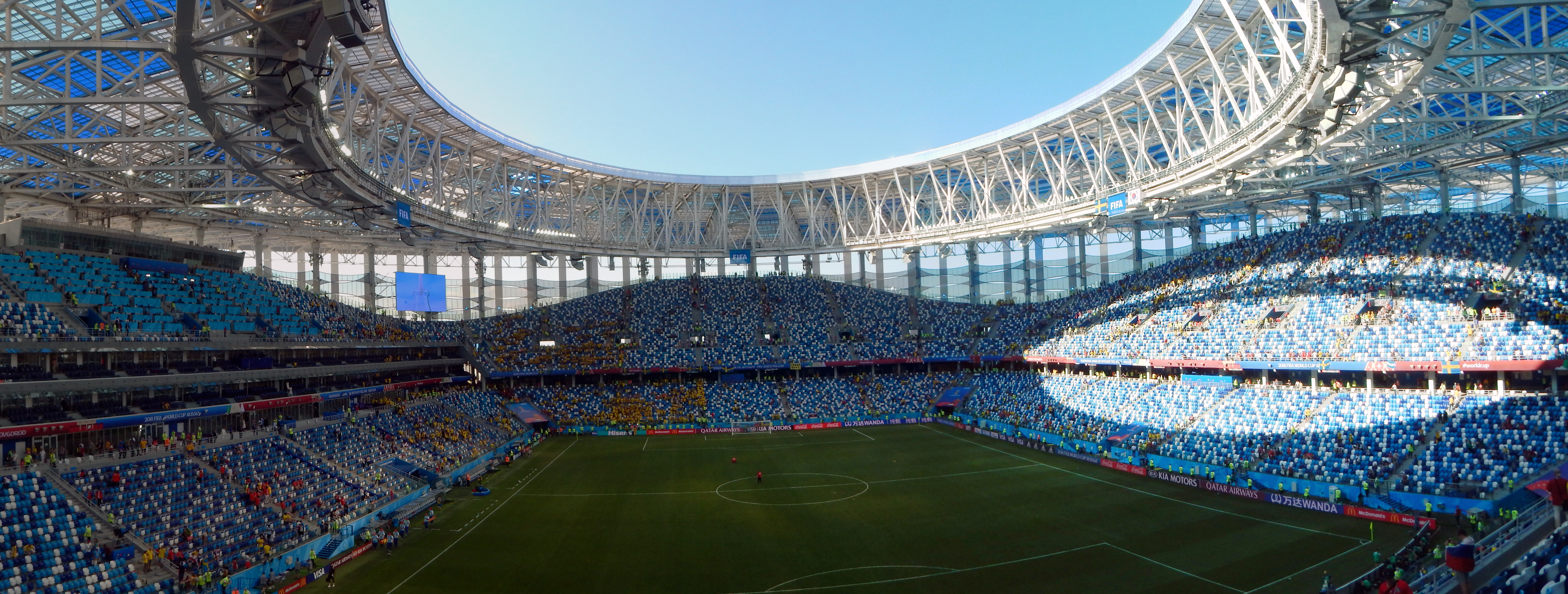 FIFA World Cup 2018, Group F, South Korea vs. Sweden